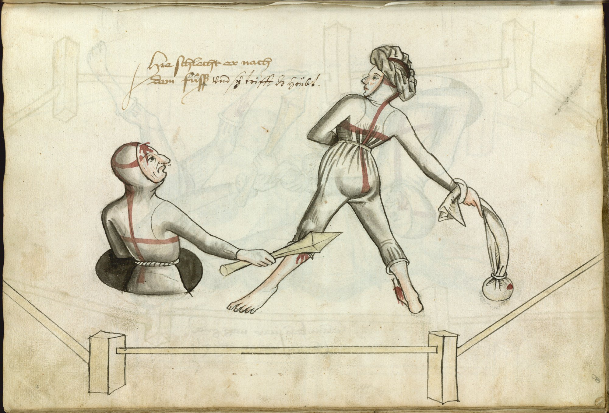 The Ms.Thott.290.2º is a fencing manual composed in 1459 by Hans Talhoffer for his own personal reference; it was scribed by Michel Rotwyler and illustrated by Clauss Pflieger.